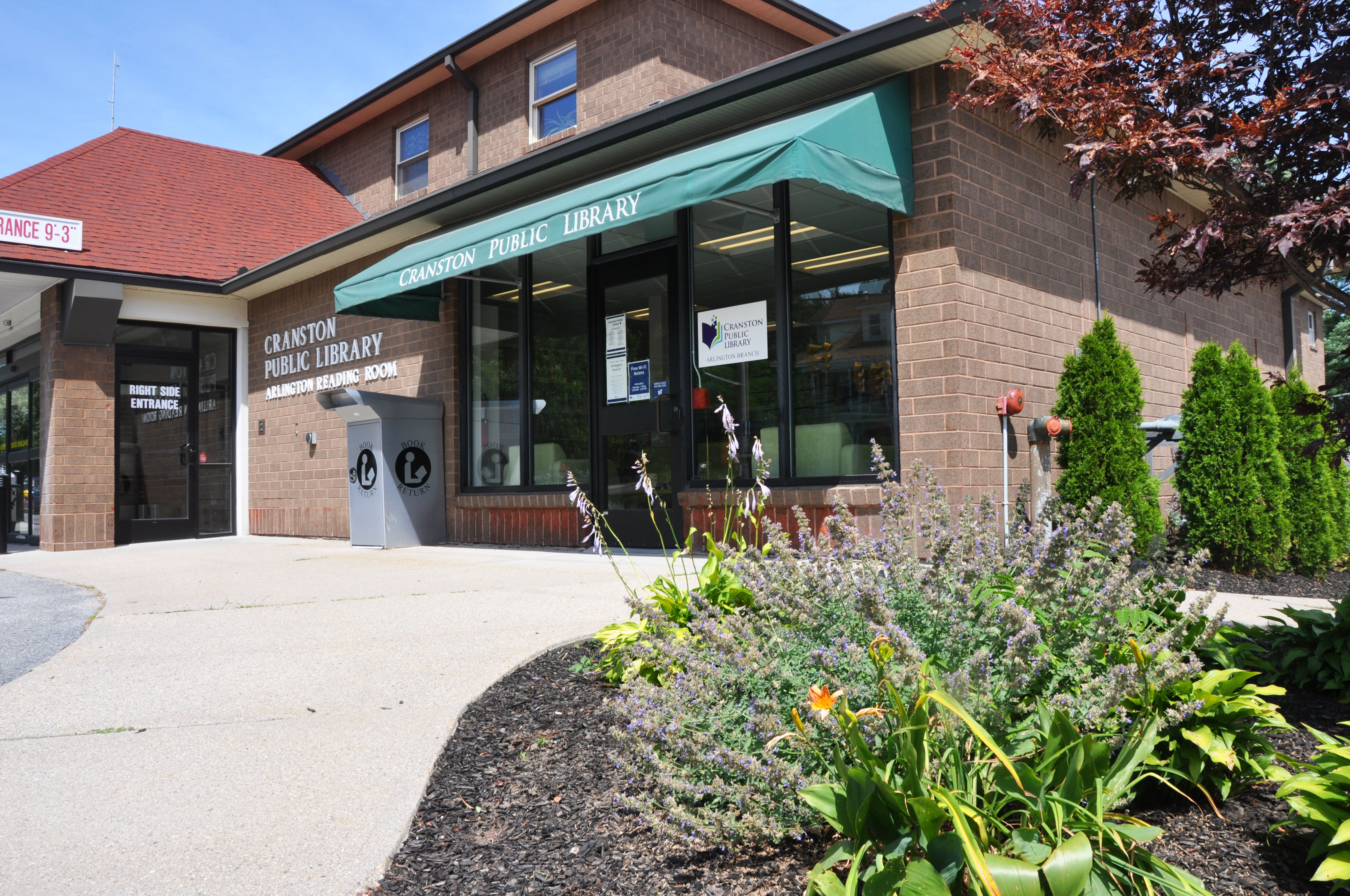 The Arlington Branch is located in the Cranston Senior Enrichment Center.